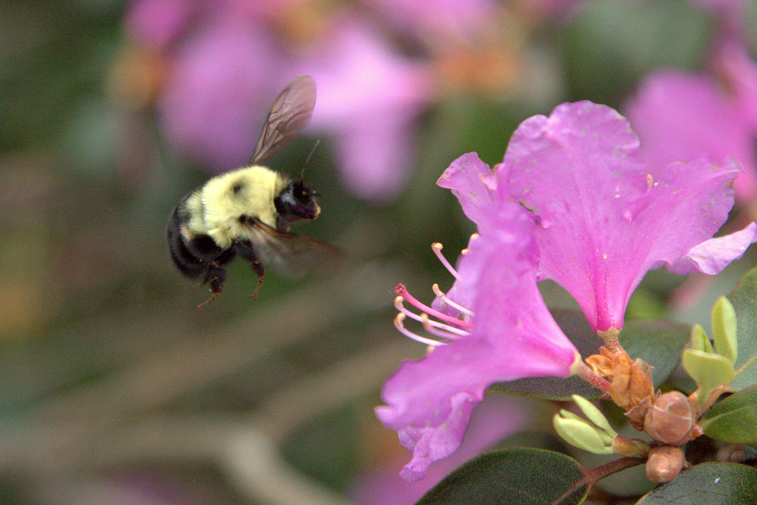 Bumble bee hovering near azalea.